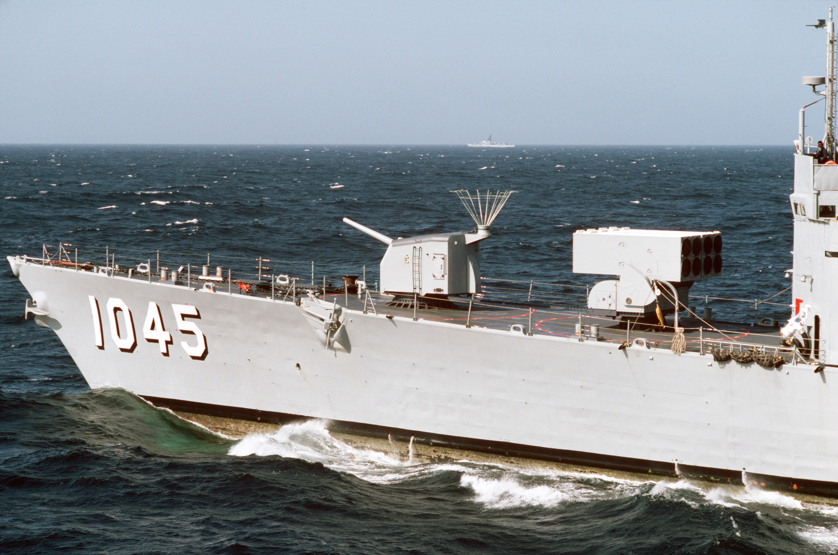 The U.S. Navy frigate USS Davidson (FF-1045) underway during a midshipmen's summer training cruise on 1 July 1986, showing the Mark 30 5-inch/38-cal. gun and the Mark 16 anti-submarine rocket (ASROC) launcher.